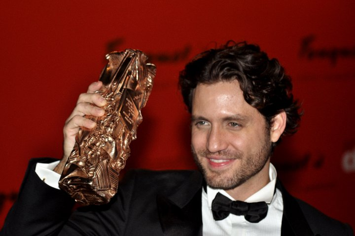 Edgar Ramirez in Paris at the César Awards ceremony